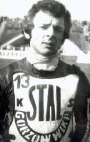 Boleslaw Proch - polish speedway rider.